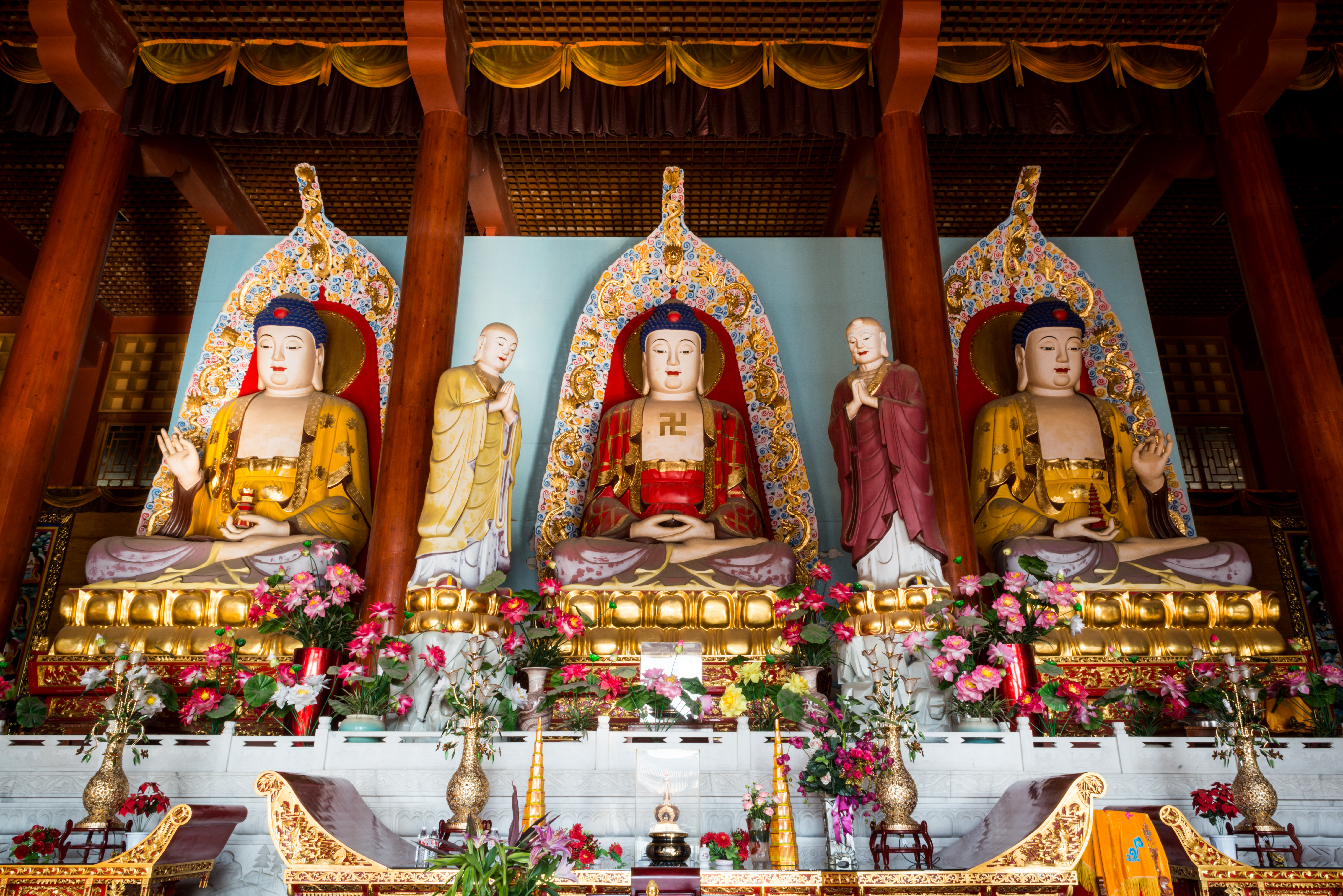 The Trikāya Buddha (三身) in the main hall of Shanyuan Temple (善缘寺), Liaoning Province, China.